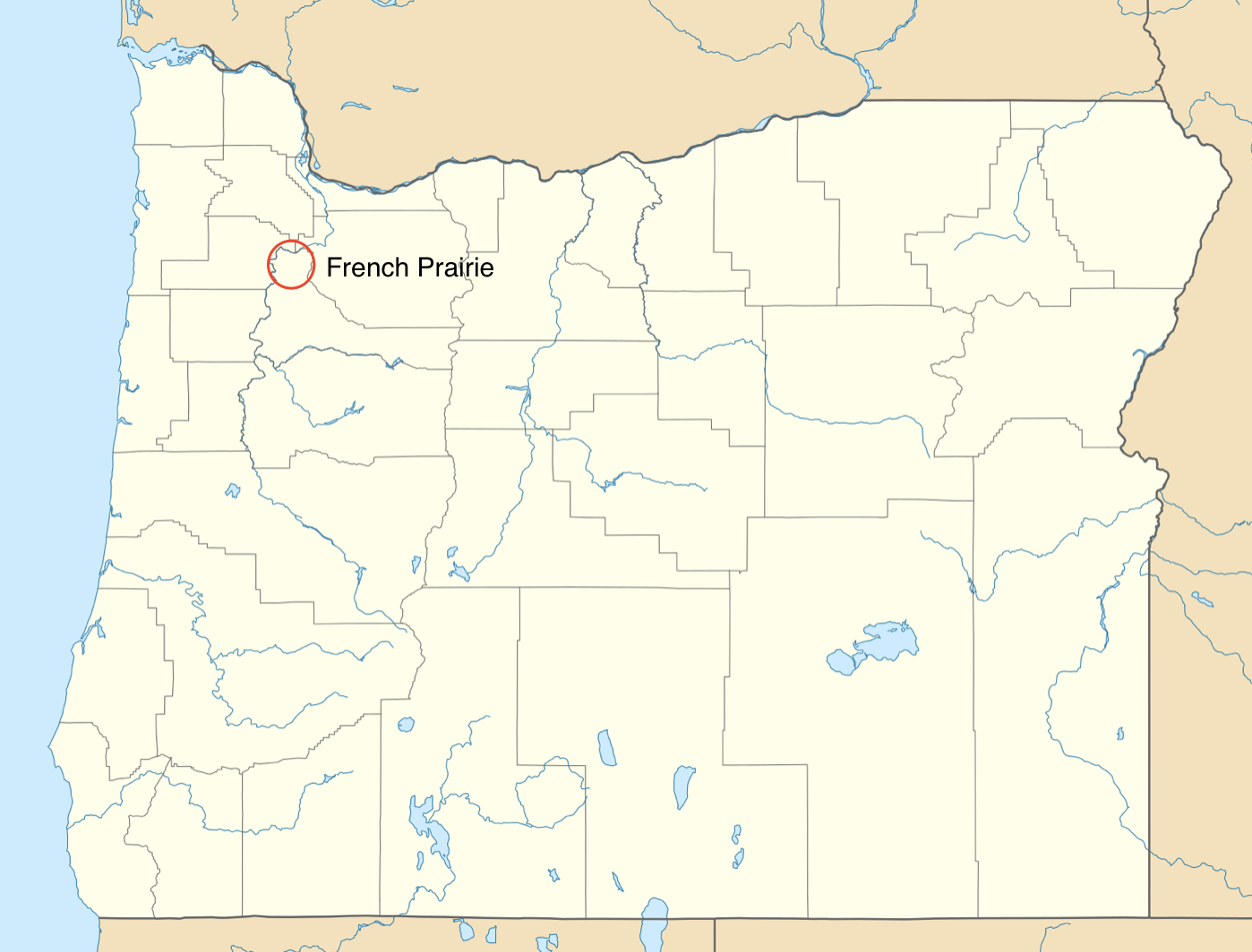 Map of Oregon highlighting French Prairie